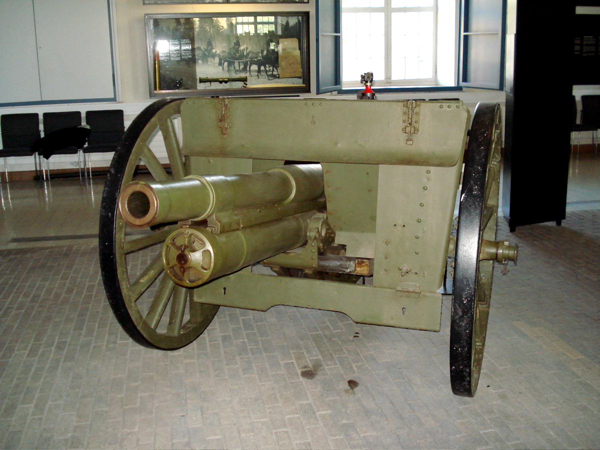 Russian 76 mm M1902 gun, displayed in Manege Military Museum in Suomenlinna fortress, Helsinki.